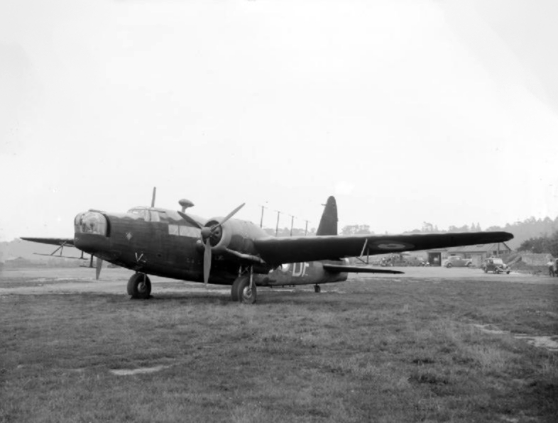 A Vickers Wellington GR.VIII (serial W5674, "‘DF-D’") of No. 221 Squadron RAF based at Limavady, County Londonderry (Northern Ireland, UK), seen here at the Vickers-Armstrongs Ltd. works at Brooklands, Surrey, following its "stickleback" conversion from a Mark IC aircraft by fitting ASV Mark II anti-submarine radar. This aircraft subsequently flew with No. 7 (Coastal) Operational Training Unit, also based at Limavady.